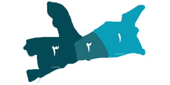 Bandar abbas districts